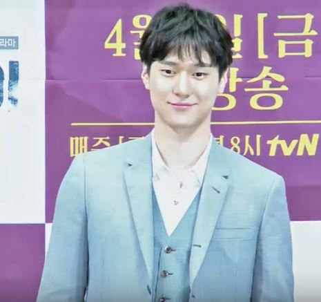 Ko Gyeong-pyo at the press conference of Chicago Typewriter